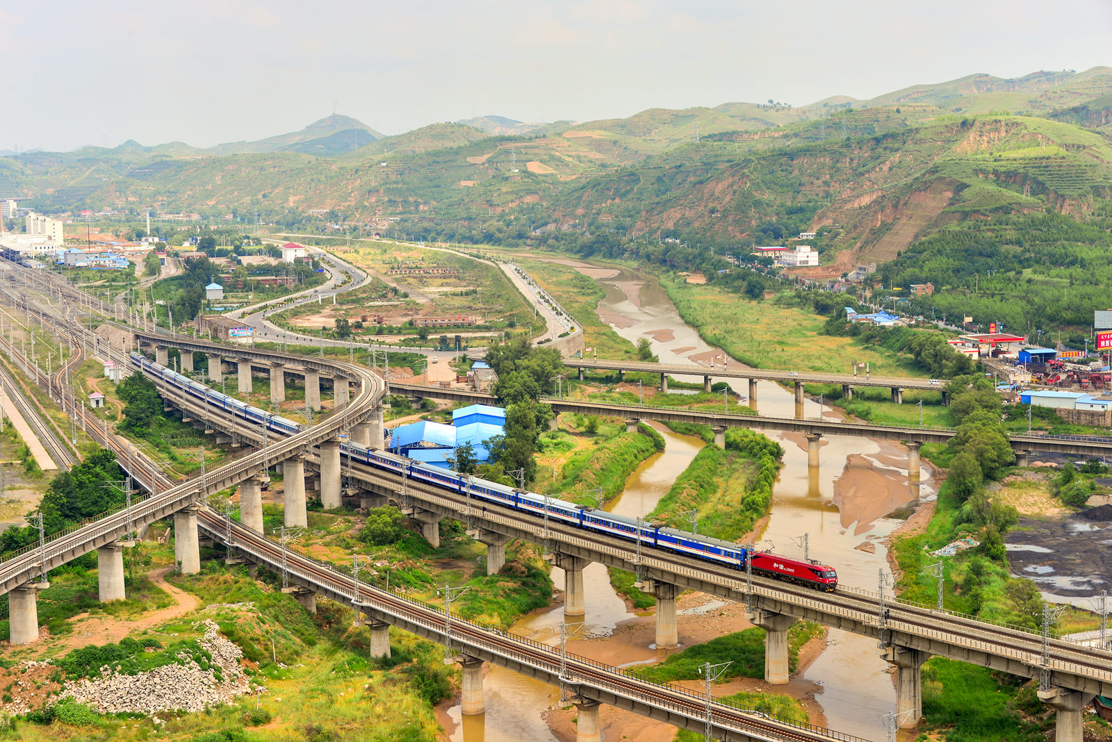 巡道工出品 Photo by Xundaogong Cycling G210 road in Suide Town 乌鲁木齐南- 北京西特70次出绥德站